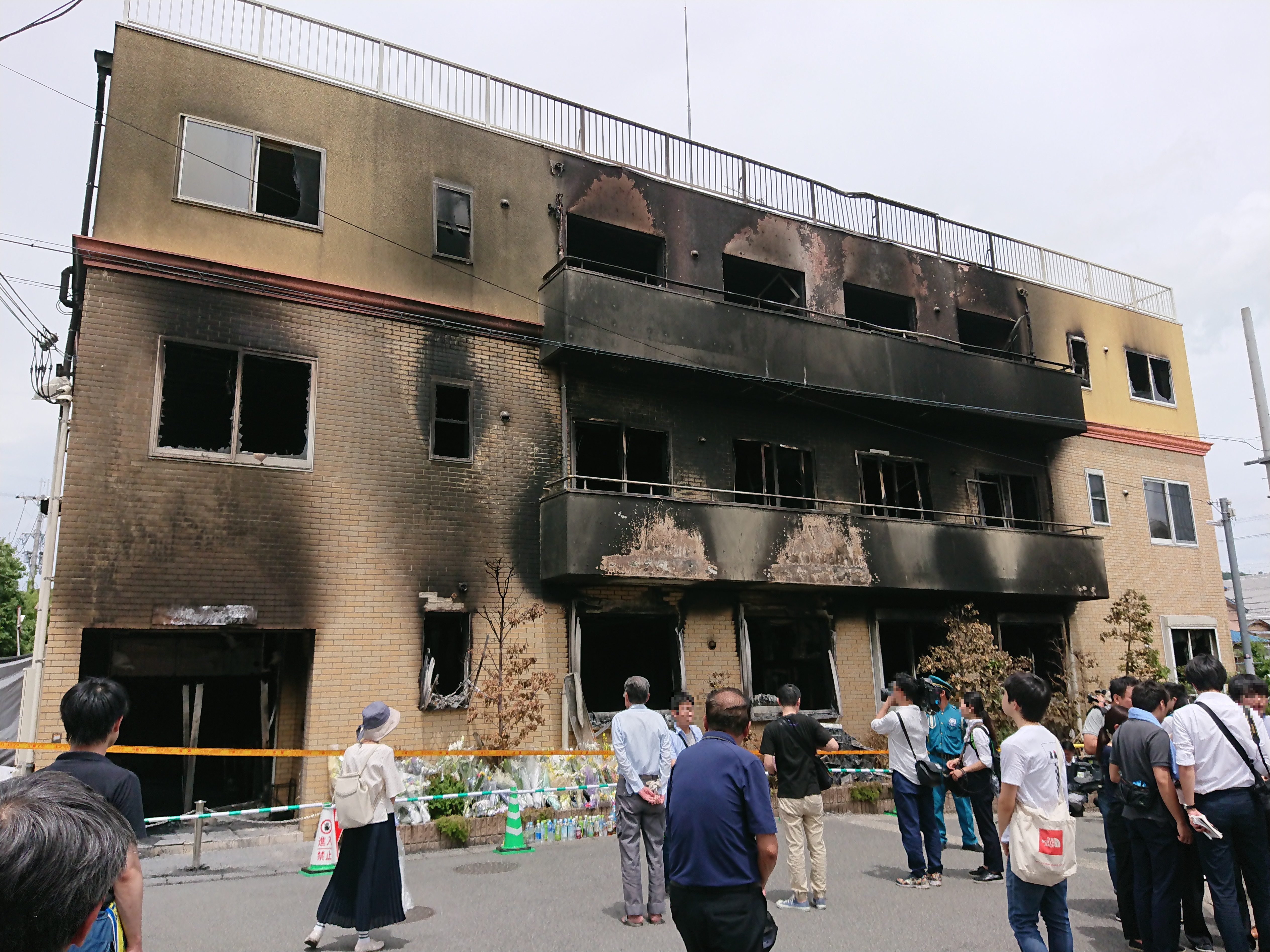 The remains of the burned down building after the arson, Kyoto Animation Studio 1 (Kyoto)